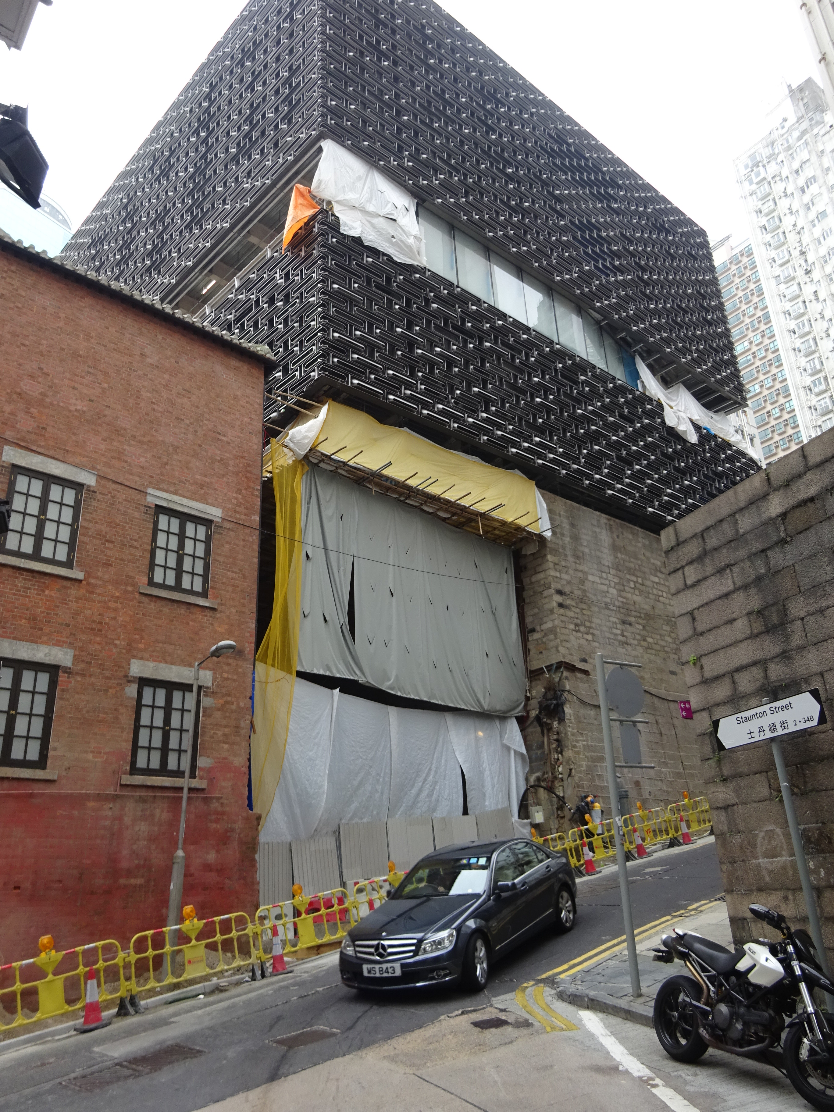 HK Central Staunton Street name sign 奧卑利街 Old Bailey Street 域多利監獄 Victoria Prison construction site April 2016